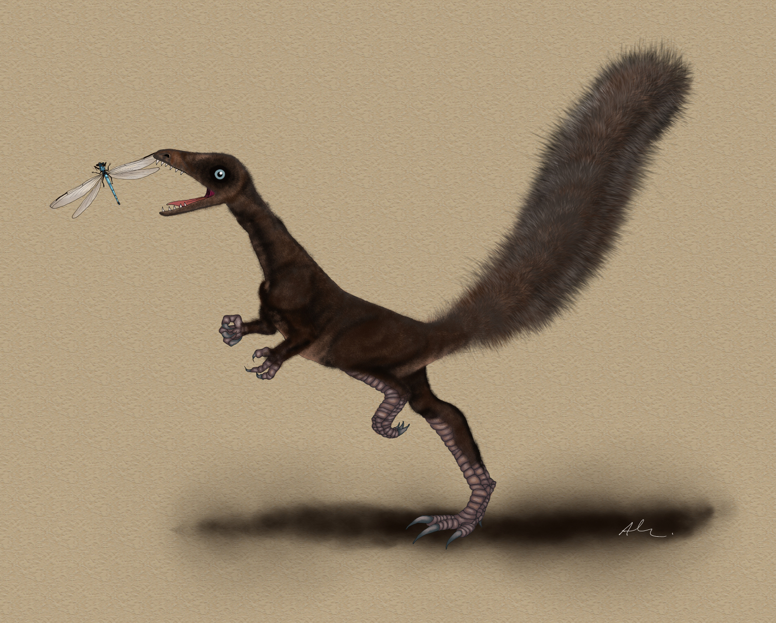 Artist's impression of how a juvenile Sciurumimus would have appeared.